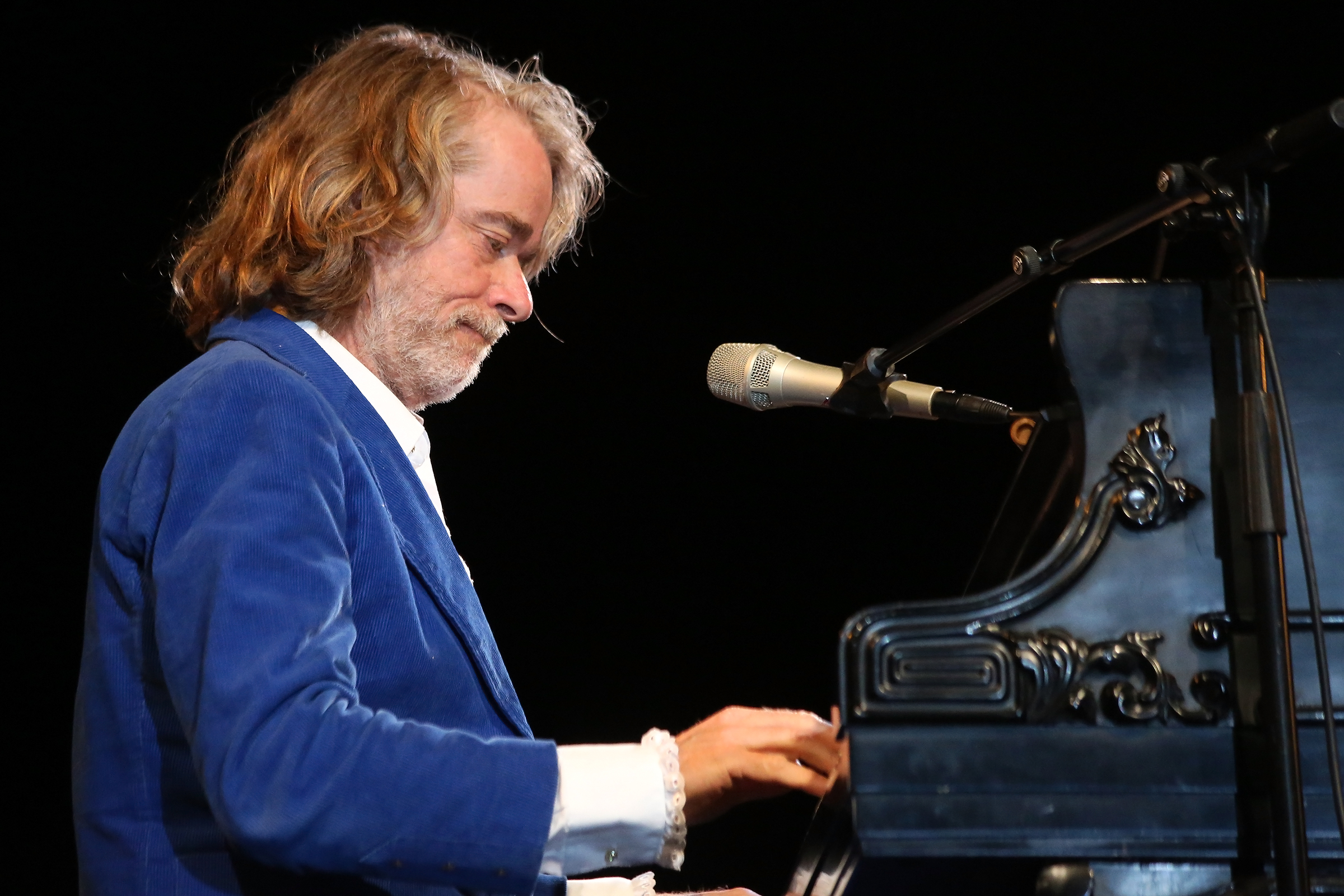 Helge Schneider, concert during Jazz Fest Wien 2013 at Wiener Stadthalle (Vienna, Austria)